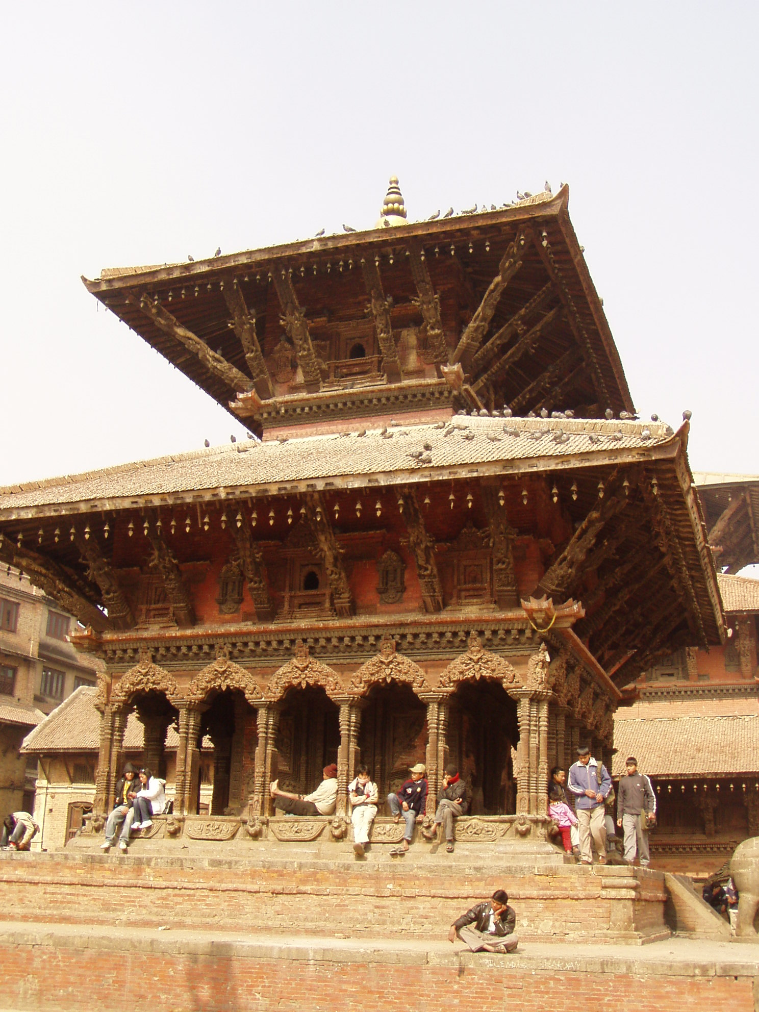 Hindu temple in Kathmandu